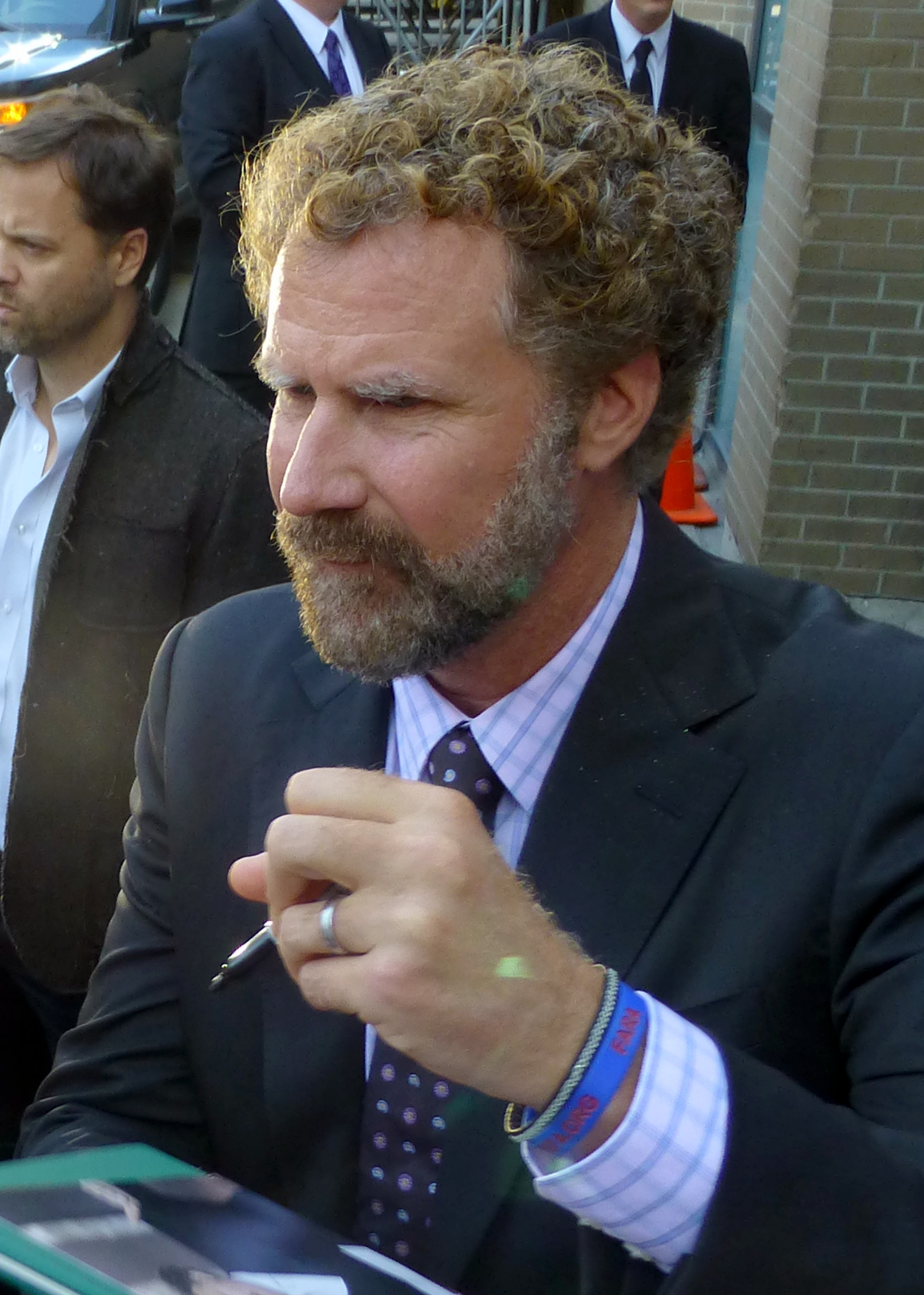 Will Ferrell at the premiere of Welcome to Me, Toronto Film Festival 2014